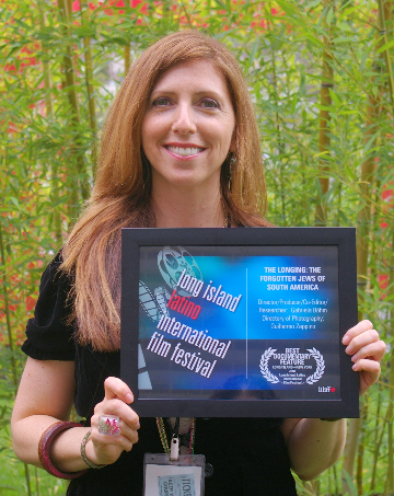 Gabriela Bohm at the Long Island International Latino Film Festival